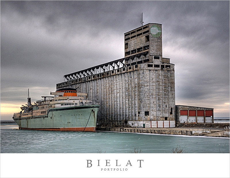 Photo of the S.S. Aquarama cruise ship (AKA the Marine Star) docked in Buffalo NY.